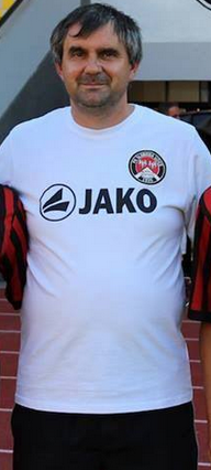 Ljubiša Stamenković in August 2013